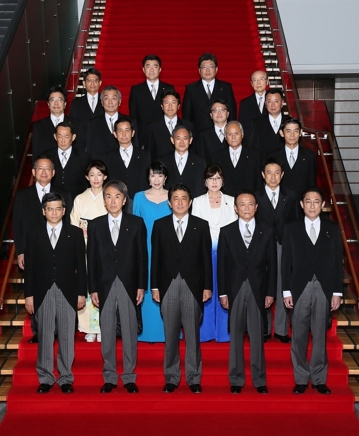 Shinzō Abe, Prime Minister, reformed the Cabinet on August 3, 2016. Abe posed for the photo with Sanae Yamamoto, Katsutoshi Kaneda, Fumio Kishida, Tarō Asō, Hirokazu Matsuno, Yasuhisa Shiozaki, Yūji Yamamoto, Hiroshige Sekō, Keiichi Ishii, Kōichi Yamamoto, Tomomi Inada, Yoshihide Suga, Masahiro Imamura, Jun Matsumoto, Yōsuke Tsuruho, Nobuteru Ishihara, Katsunobu Katō, Kōzō Yamamoto, Tamayo Ōtsuka, Ministers of State, Kōichi Hagiuda, Kōtarō Nogami, Kazuhiro Sugita, Deputy Chief Cabinet Secretaries, and Yūsuke Yokobatake, Director-General of the Cabinet Legislation Bureau, at the Prime Minister's Official Residence in Chiyoda Ward, Tōkyō Metropolis.